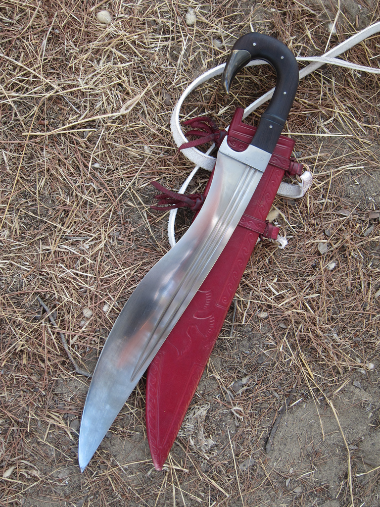 Kopis by JT Palliko